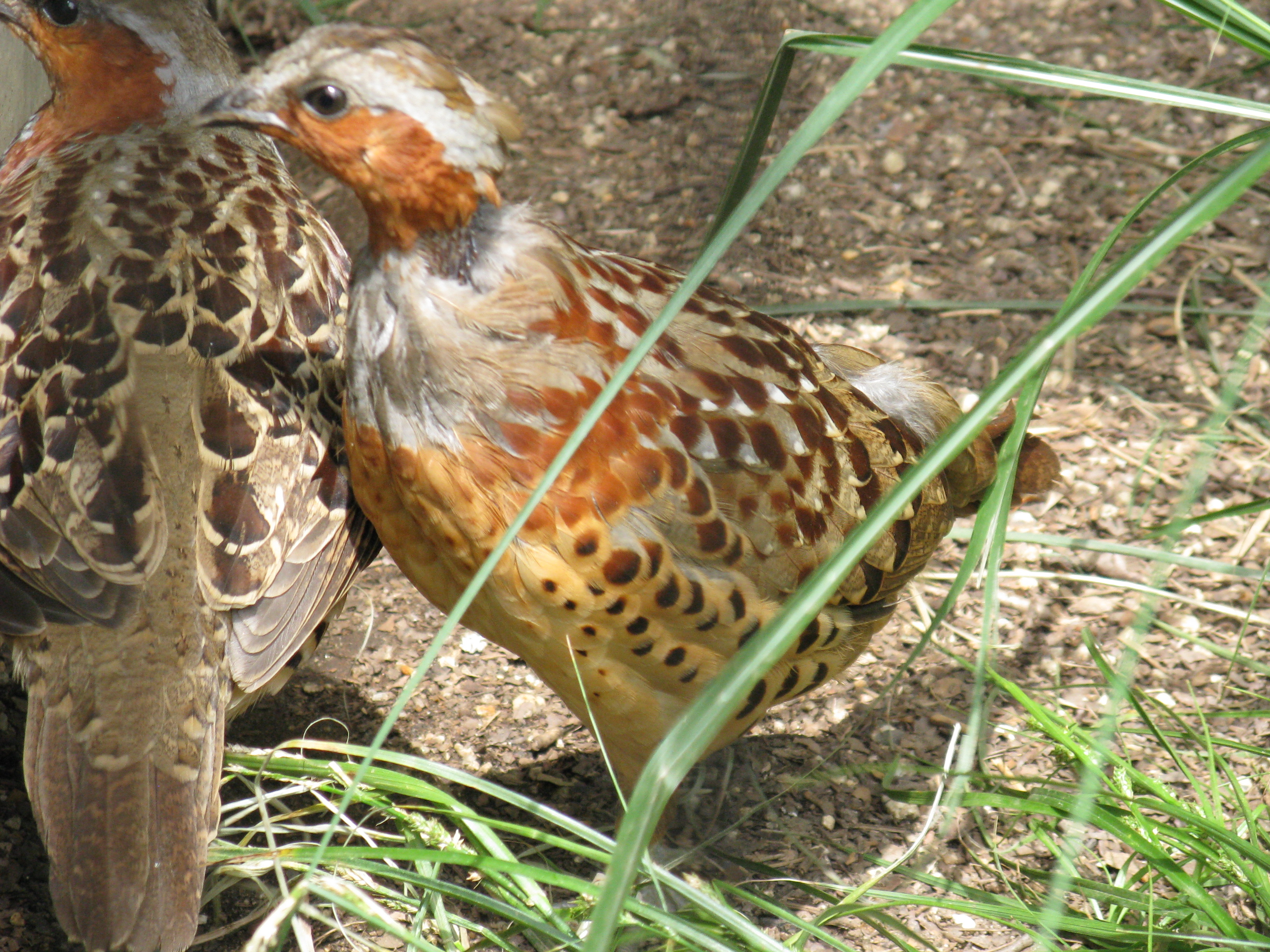 Scientific name Bambusicola thoracicus